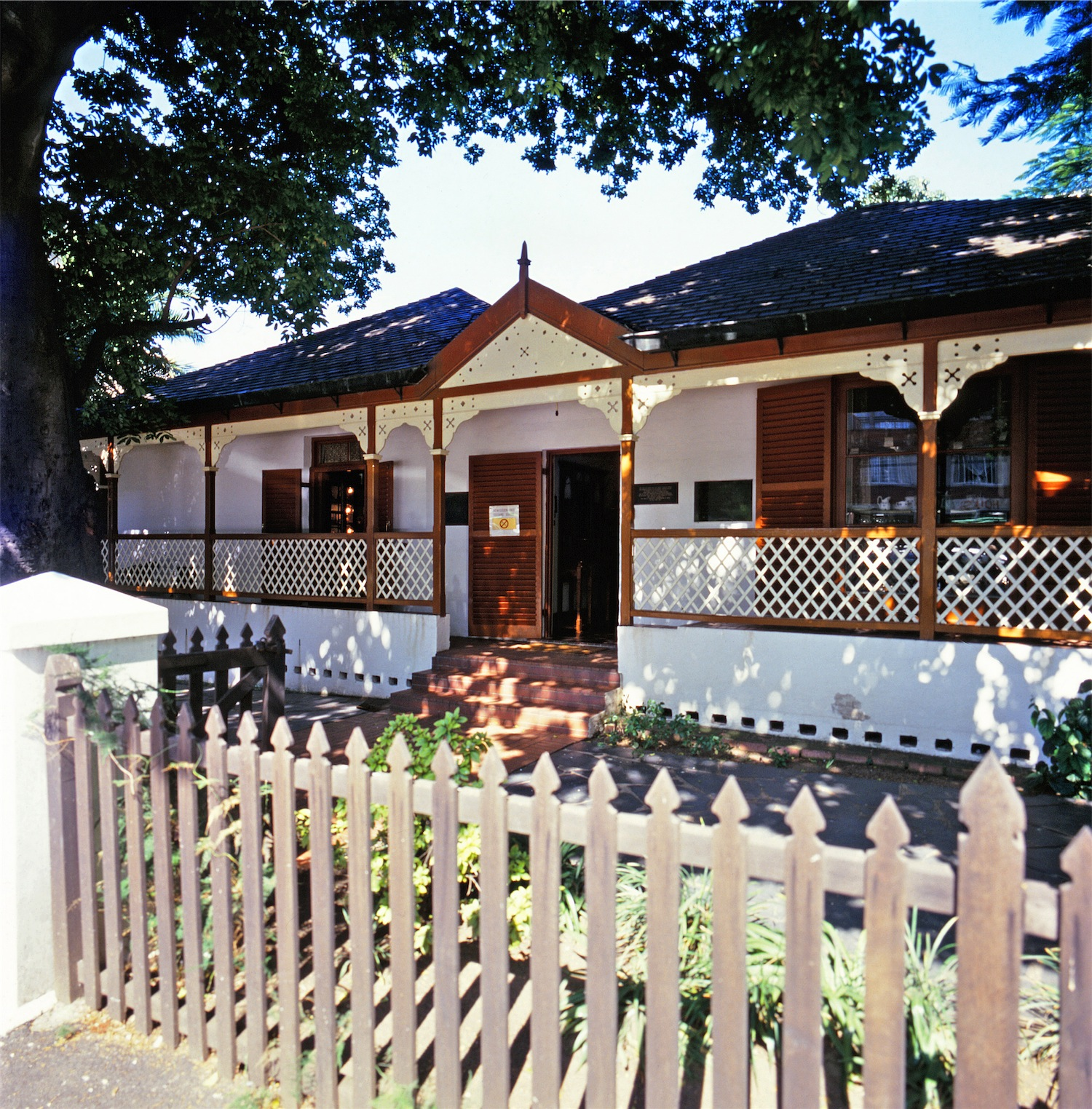 This media shows a South African Protected Site with SAHRA file reference 0000000000.